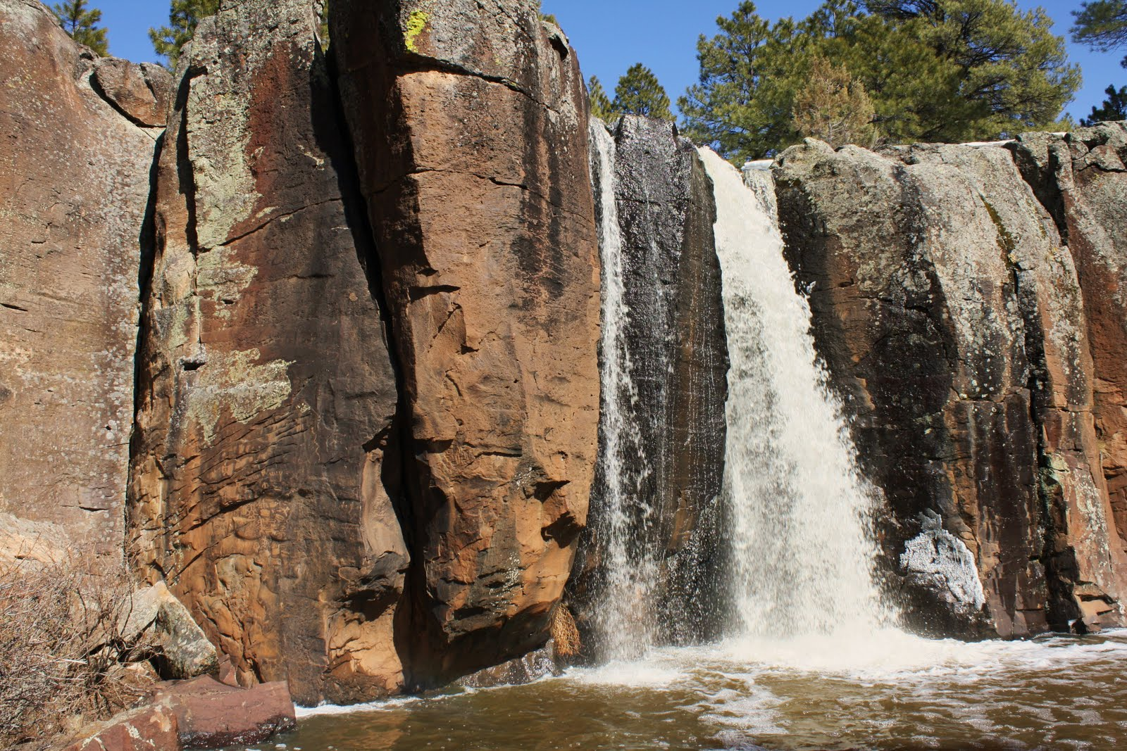 Waterfall at Keyhole Sink on the Williams Ranger District of Kaibab National Forest. Please give credit to: U.S. Forest Service, Southwestern Region, Kaibab National Forest.